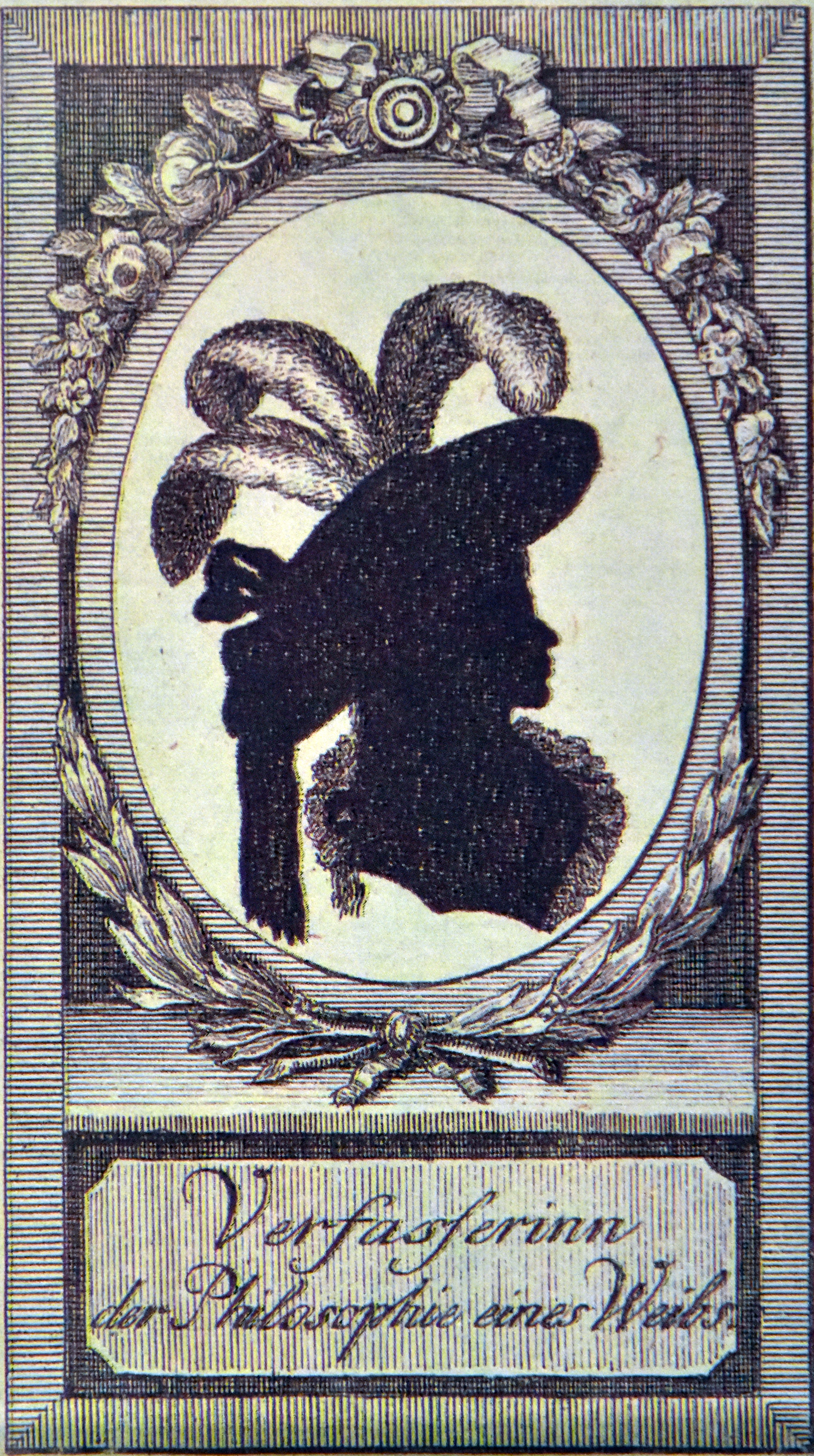 Collection of the Stadtmuseum) in Rapperswil (Switzerland): Ausstellung Der Zeit voraus. Drei Frauen auf eigenen Wegen. Marianne Ehrmann-Brentano Schriftstellerin und Journalistin (1755–1795) ++ Alwina Gossauer Fotografin und Geschäftsfrau (1841–1926) ++ Martha Burkhard Globetrotterin und Malerin (1874–1956) : Marianne Ehrmann-Brentano, «Kleine Fragmente für Denkerinnen, von der Frau Verfasserinn der Philosophie des Weibs» 1789. Die reproduzierten Titelseiten zeigen einen Schattenriss von Marianne Ehrmann, das einzige Porträt, das von ihr existiert.